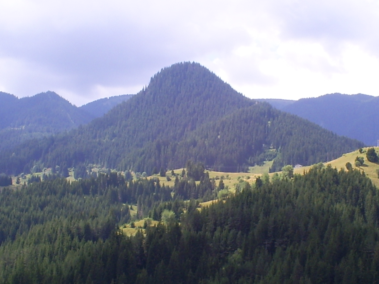 Solishta